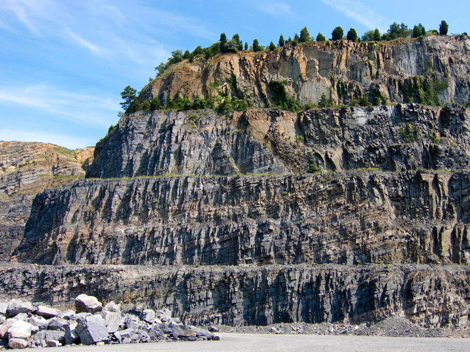 Normal fault with diabase (dolerite) sill on hanging wall block (brownish weathering rock with massive appearance in the top third)[1] cutting through thin-bedded fine-grained siliciclastics of Balls Bluff Siltstone member, Bull Run Formation (i.e. Passaic Formation sensu Weems et al., 2016), Culpeper Basin, northern face of Luck Stone Quarry, Manassas VA ↑ cf. Richard Diecchio, Richard Gottfried (2004): Regional Tectonic History of Northern Virginia. Pp. 1–14 in: Scott Southworth, William Burton (eds.): Geology of the National Capital Region – Field Trip Guidebook. U.S. Geological Survey 1264, p. 11/12 (fig. 6)